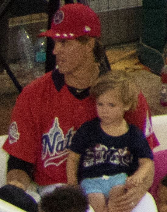 Members of the 2018 National League All-Star Team during the 2018 Major League Baseball Home Run Derby at Nationals Park.